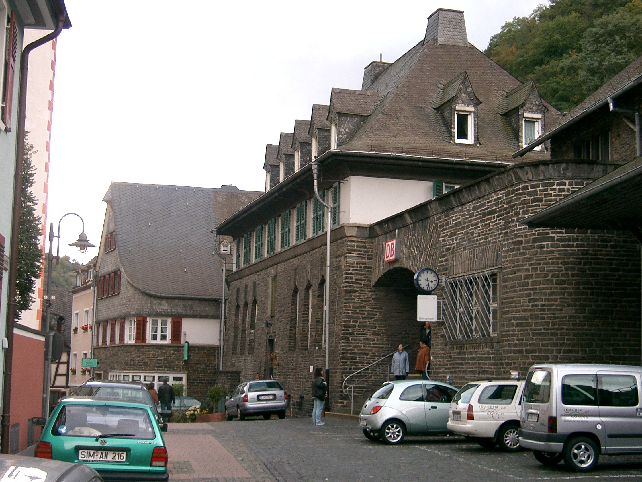 Sankt Goar Trainstation